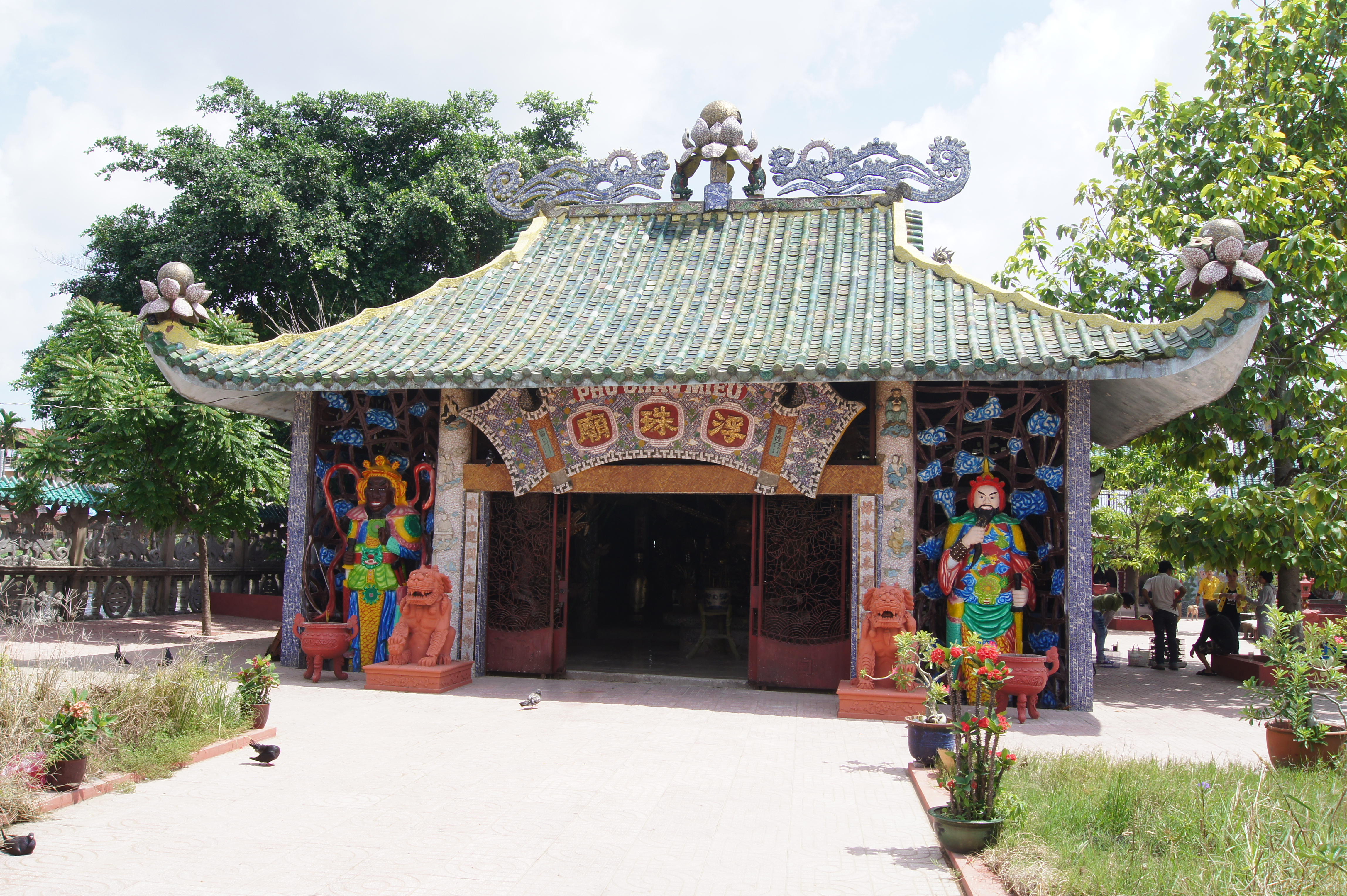 Miếu Nổi (Floating Temple), a Chinese-Vietnamese temple on the Vam Thuat river, Gò Vấp district, Gia Định province (now "HCMC")